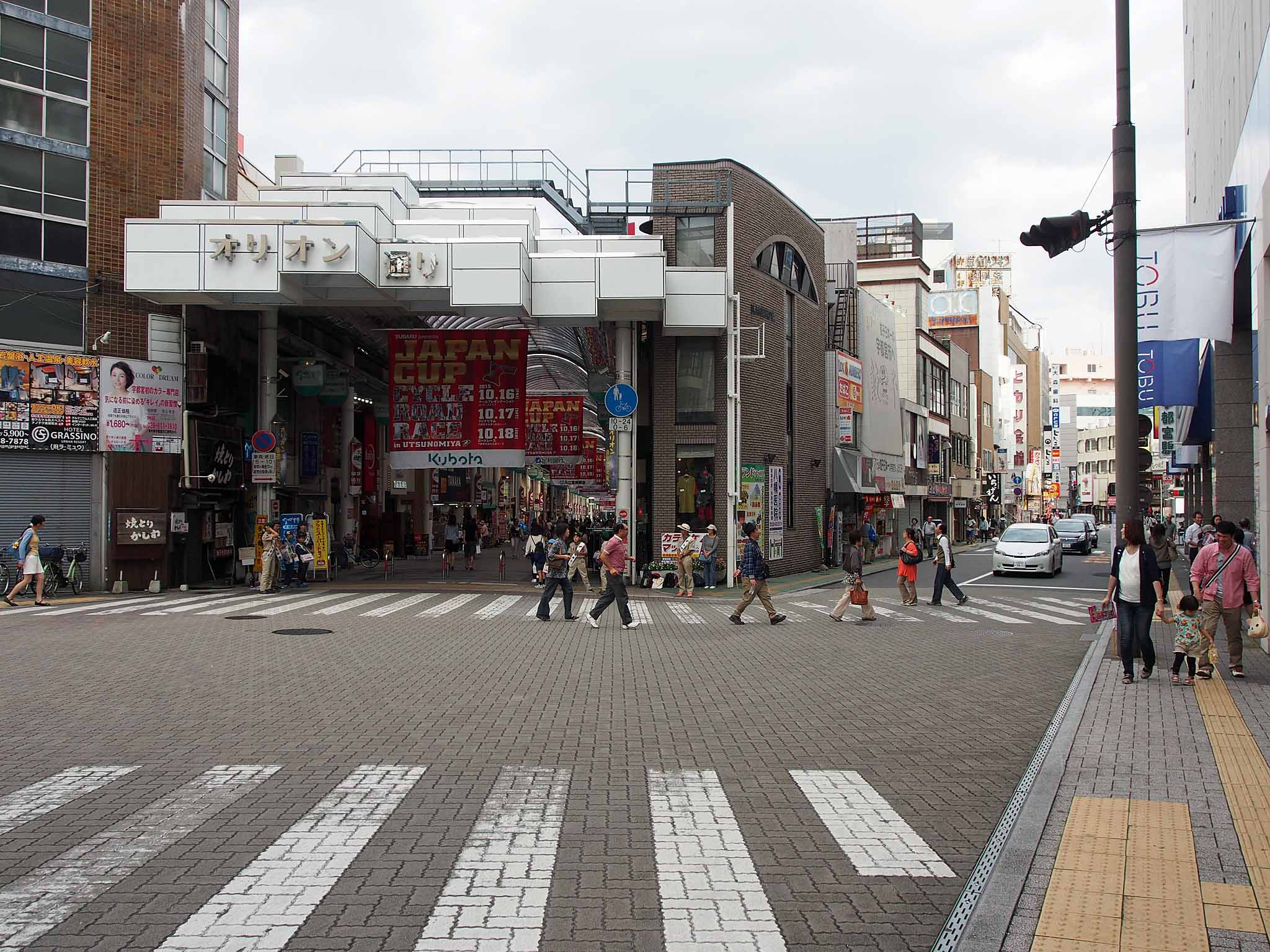 Tobu Utsunomiya Station side entrance of the Orion Street in Utsunomiya City, Tochigi Prefecture, Japan